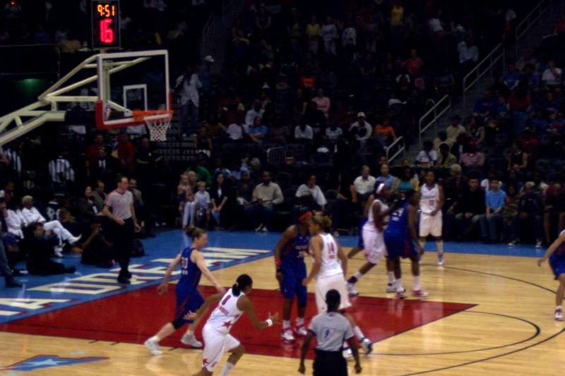 A game between the Atlanta Dream and the Detroit Shock in 2008